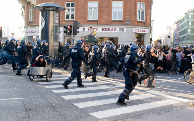 Police baton-charging the demonstration in the Copenhagen December Riot